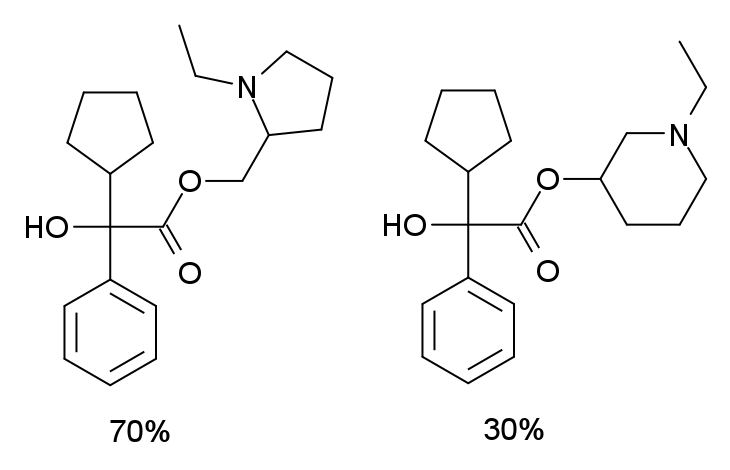 Chemical structure of Ditran